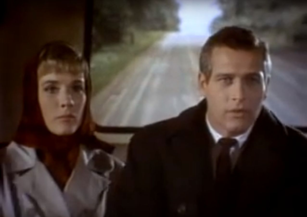 Julie Andrews and Paul Newman (Torn Curtain)